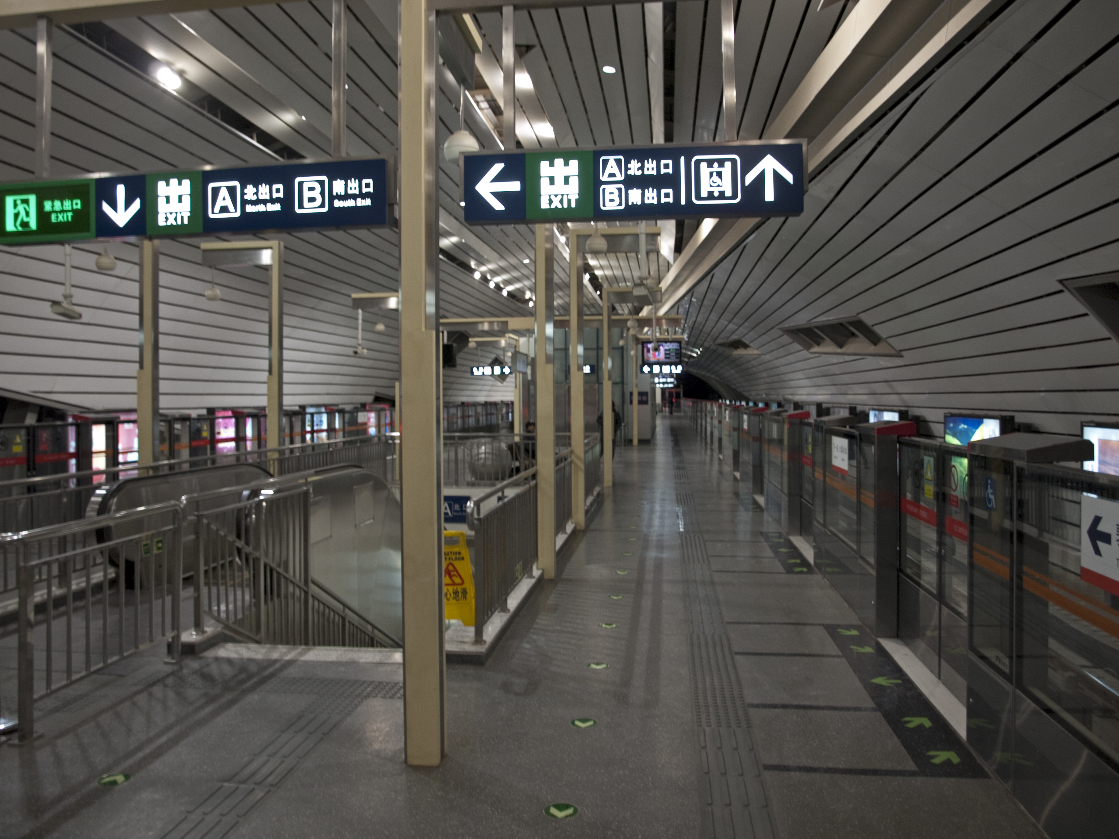 Daotian station, Beijing Subway